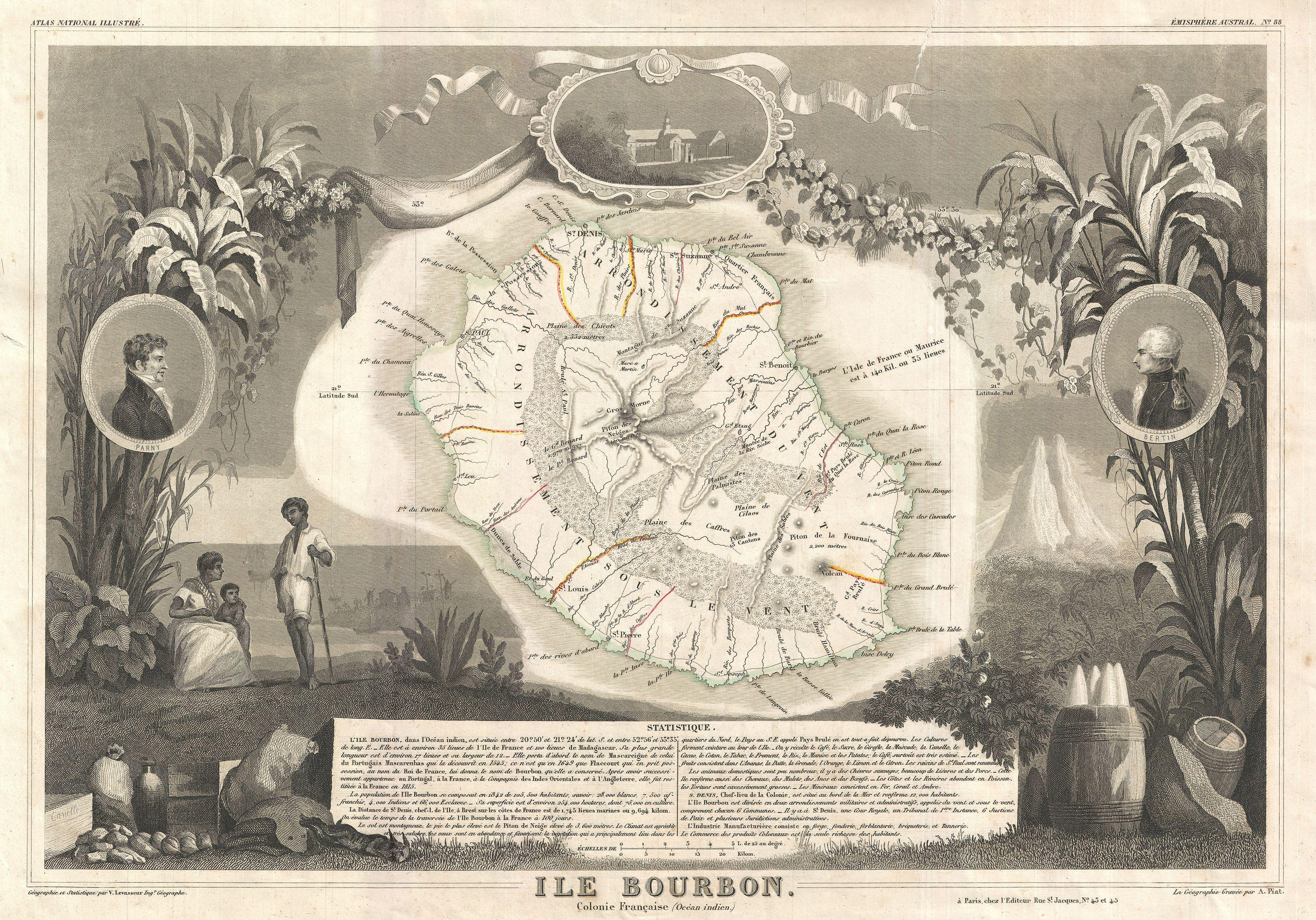 This is a fascinating 1857 map of the French department of Ile. Bourbon or Reunion. Bourbon, or Reunion, is a volcanic island off the coast of Africa. It is one of France's few remaining colonies in the Indian Ocean. Reunion is known for its striking natural beauty and marvelous beaches. The whole is surrounded by elaborate decorative engravings designed to illustrate both the natural beauty and trade richness of the land. There is a short textual history of the regions depicted on both the left and right sides of the map. Published by V. Levasseur in the 1852 edition of his Atlas National de la France Illustree.